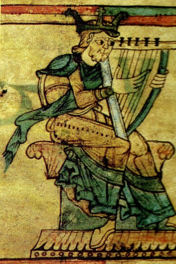 Biblical King David depicted with a golden crown and a harp on a throne. This is an illustration from an illuminated manuscript, more precisley Evangelion which was brought to Zagreb, Croatia, likely in 1094. The manuscript is now in National and University Library in Zagreb.